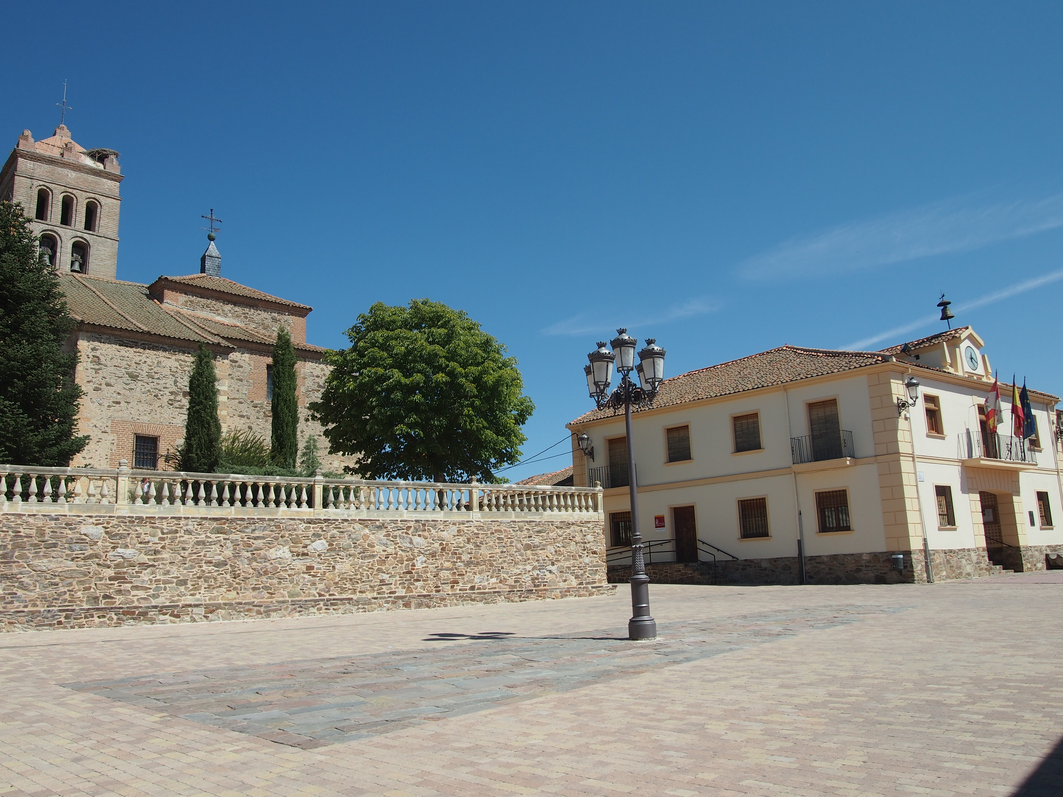 Main square in Migueláñez, Segovia (Spain) called Plaza Mayor. Buildings: the Town Hall on the right and the Nuestra Señora de la Asunción Church.